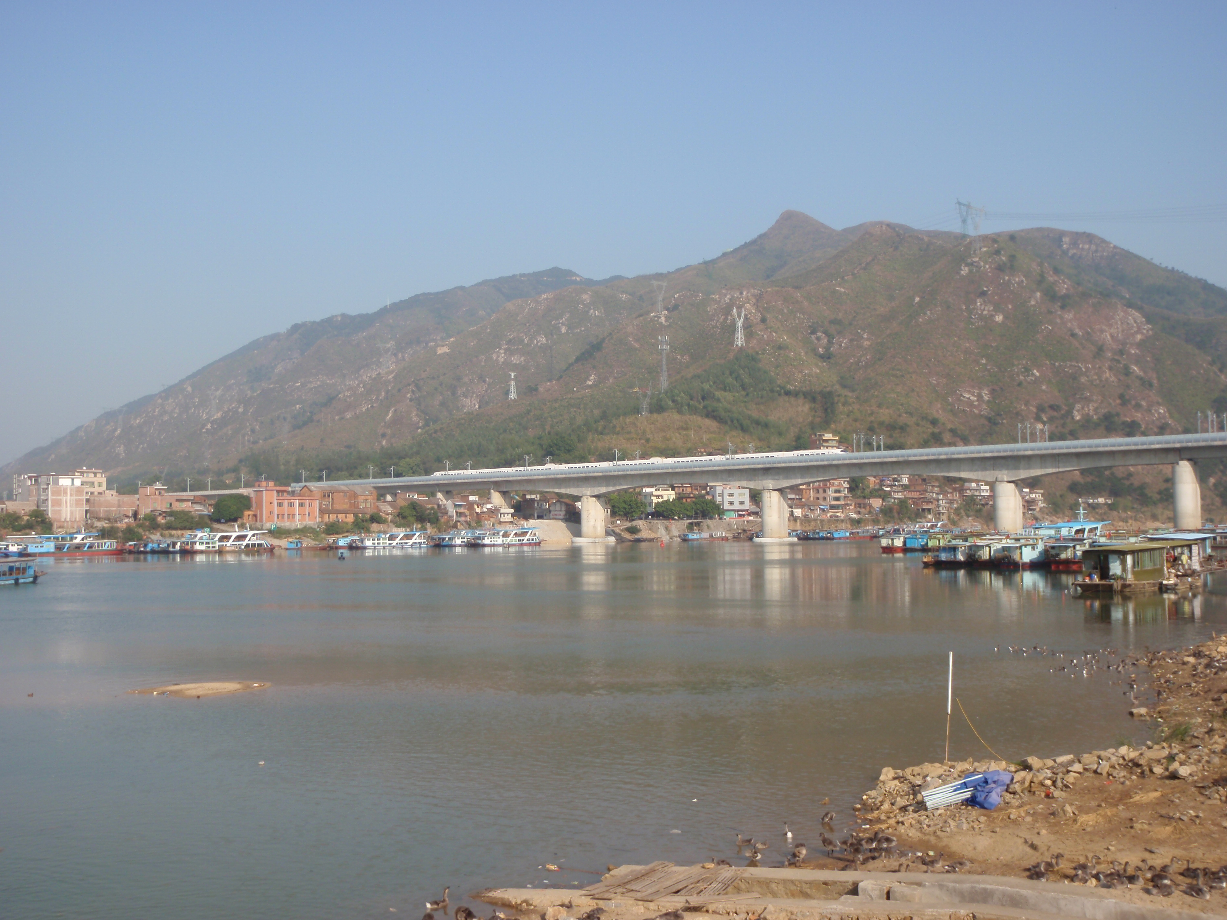 Wuguang Passenger Dedicated Line - Beijiang Baimiao Bridge, Qing'yuan, Guangdong province, China. Length : 2001.8 meters.